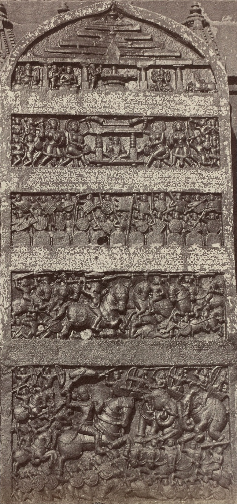 12th century hero stone (Viragal) with old Kannada inscription from the Tarakeshvara Temple at Hangal, Karnataka. Ref source:John Faithful Fleet and James Burgess, Her Majesty's stationary office, 1878, Pâli, Sanskrit and Old Canarese Inscriptions: From the Bombay Presidency and Parts of the Madras Presidency and Maisûr, p.18